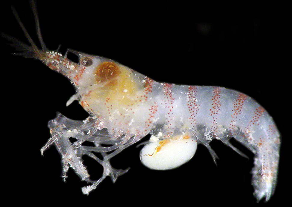 Alpheus sp. aff. paracrinitus Miers, 1881 (Caridea: Alpheidae) from Fiji with Faba sp. (=Zeuxokoma sp.) (Cryptoniscidae) attached to ventral surface (host not previously recorded with any epicaridean). Photograph used by permission of Leslie Harris.